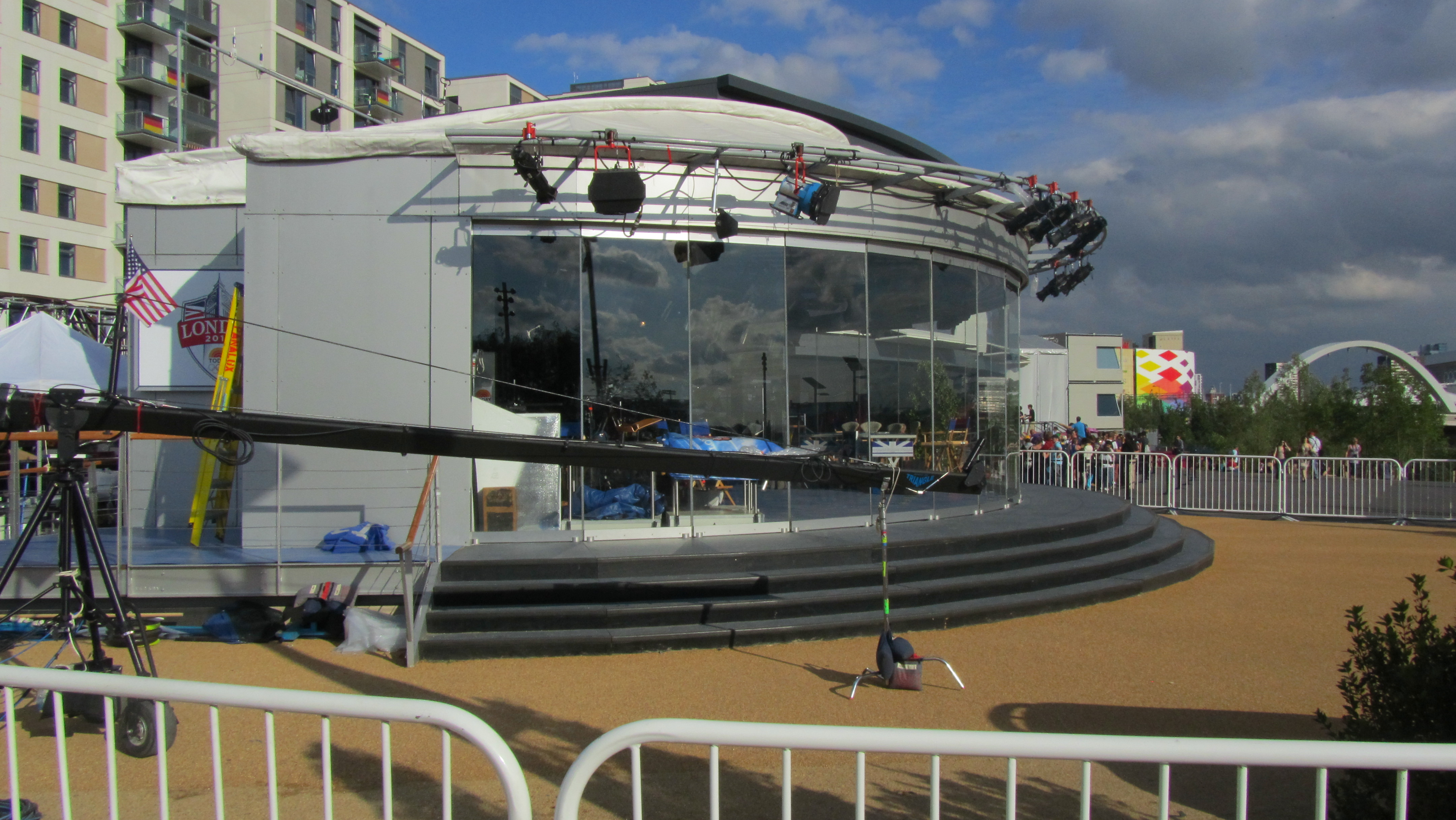 NBC's studio in the Olympic Park